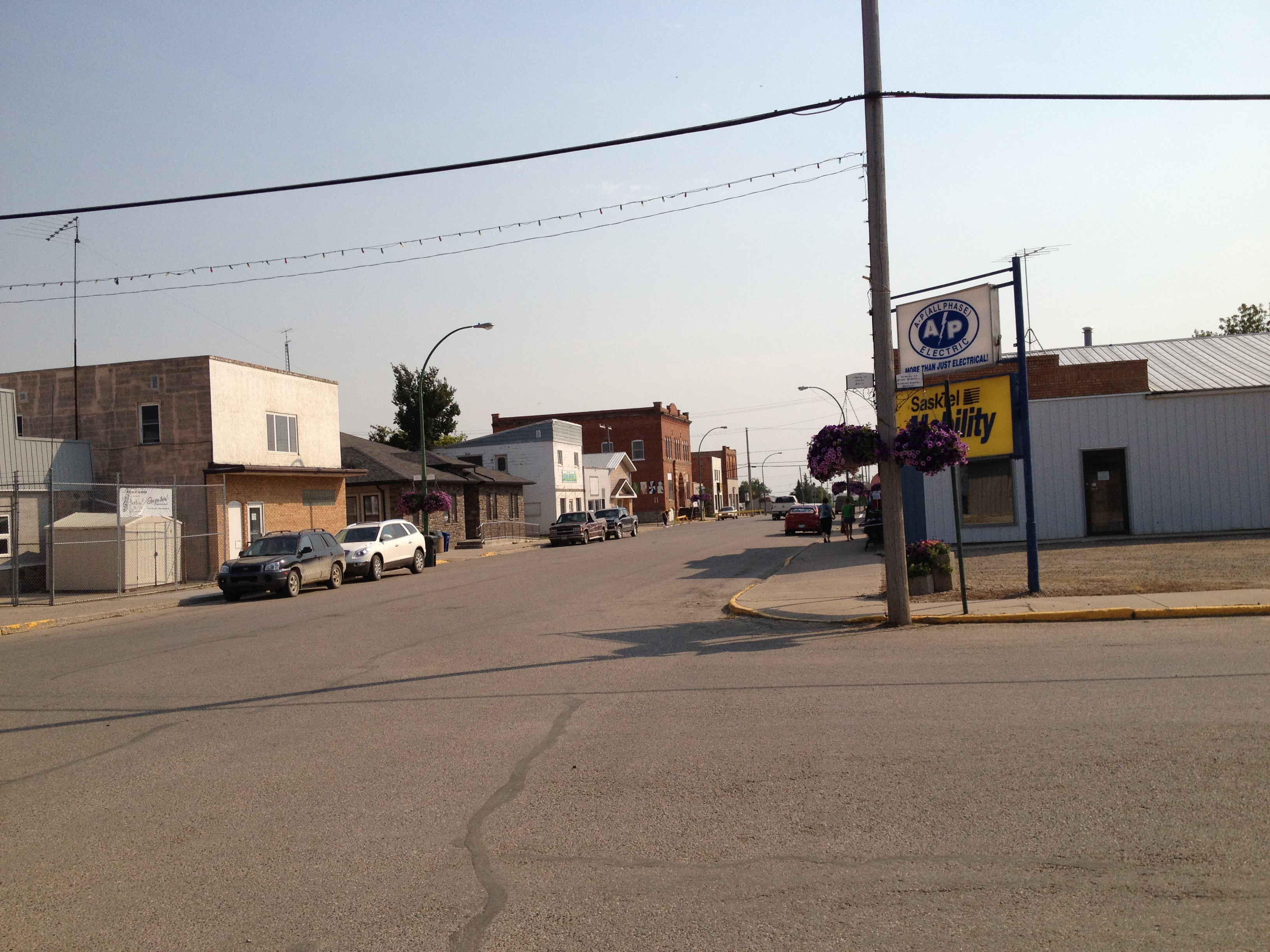 Main Street, Oxbow, Saskatchewan, looking south